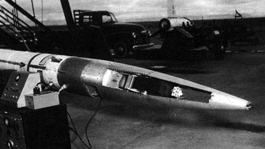 Historical McPherson VUV Solar Spectrometer -- We, McPherson, made and own this image and hereby release it under CC By-SA 3.0 License.